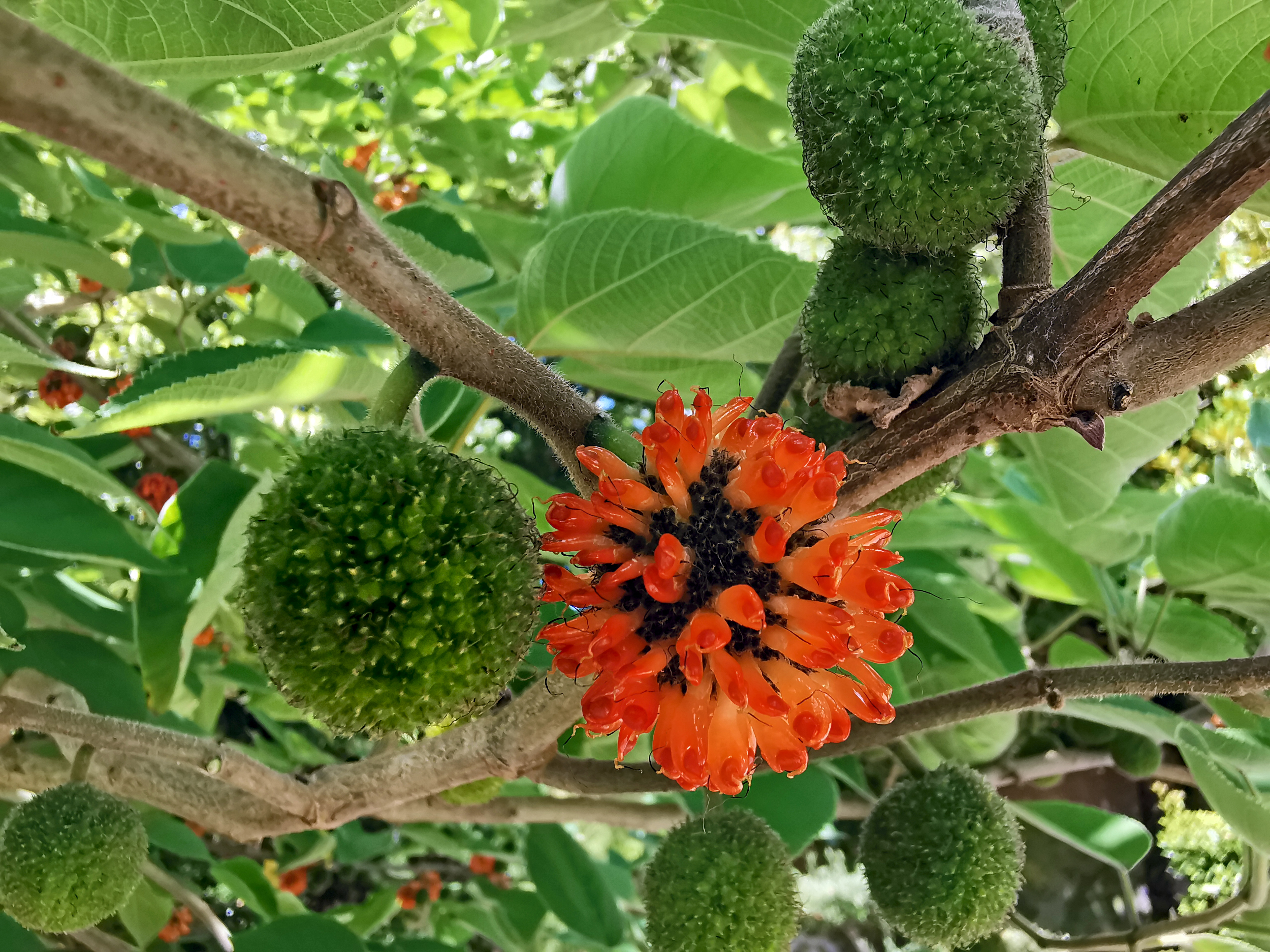 Paper Mulberry ( Broussonetia papyrifera) - Fruits Locality : Clermont-le-Fort, France